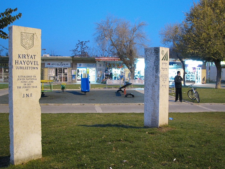 Kiryat HaYovel shopping center, JNF monument to "Jubileetown".